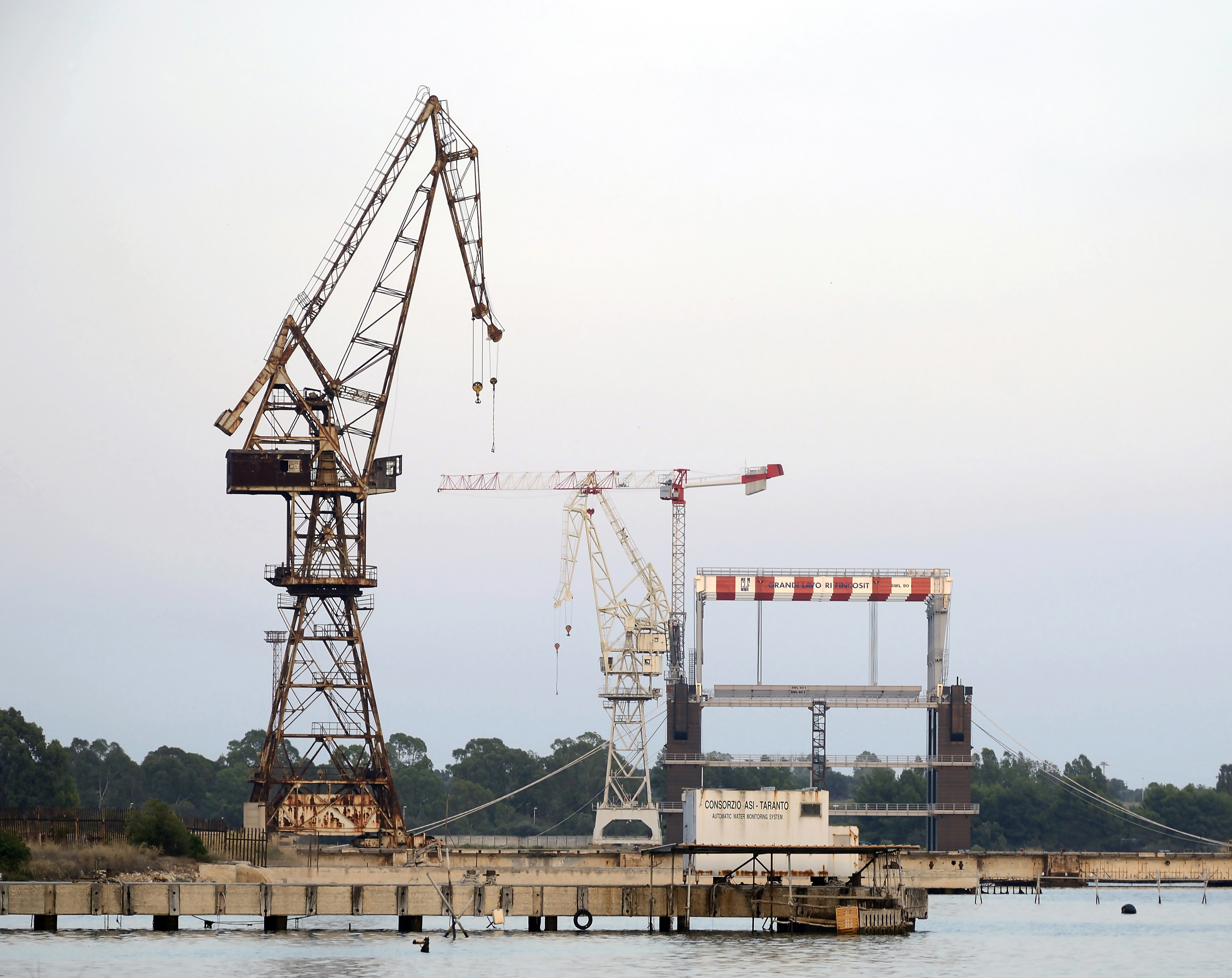 Old cranes abandoned at the port of Taranto